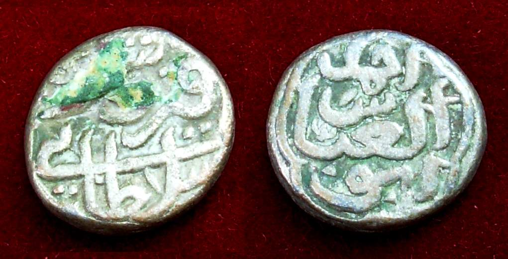 image from personal collection